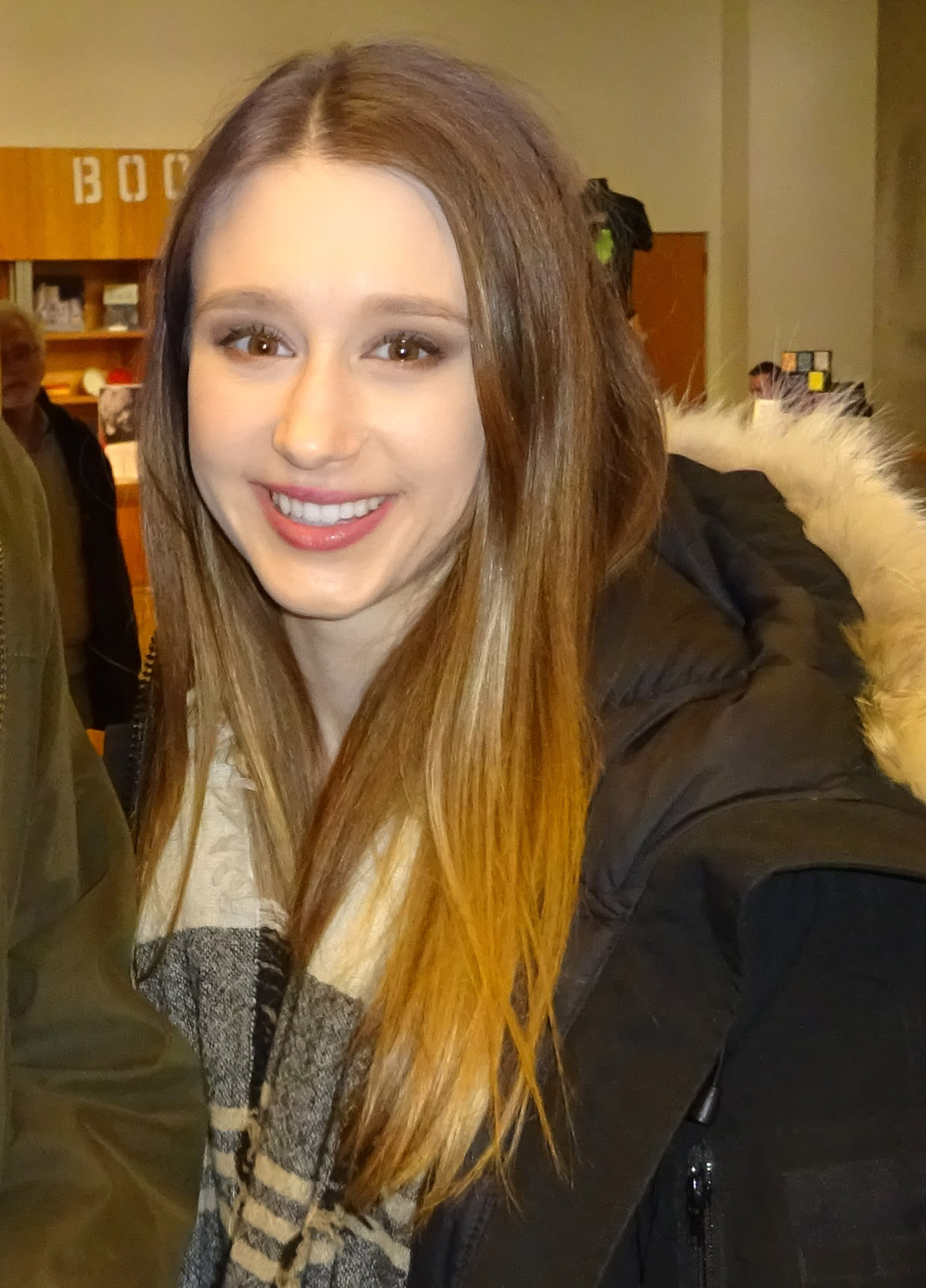 Taissa Farmiga in New York City, 2016